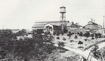 Fry Glass Factory, circa 1910. Rochester, Pennsylvania